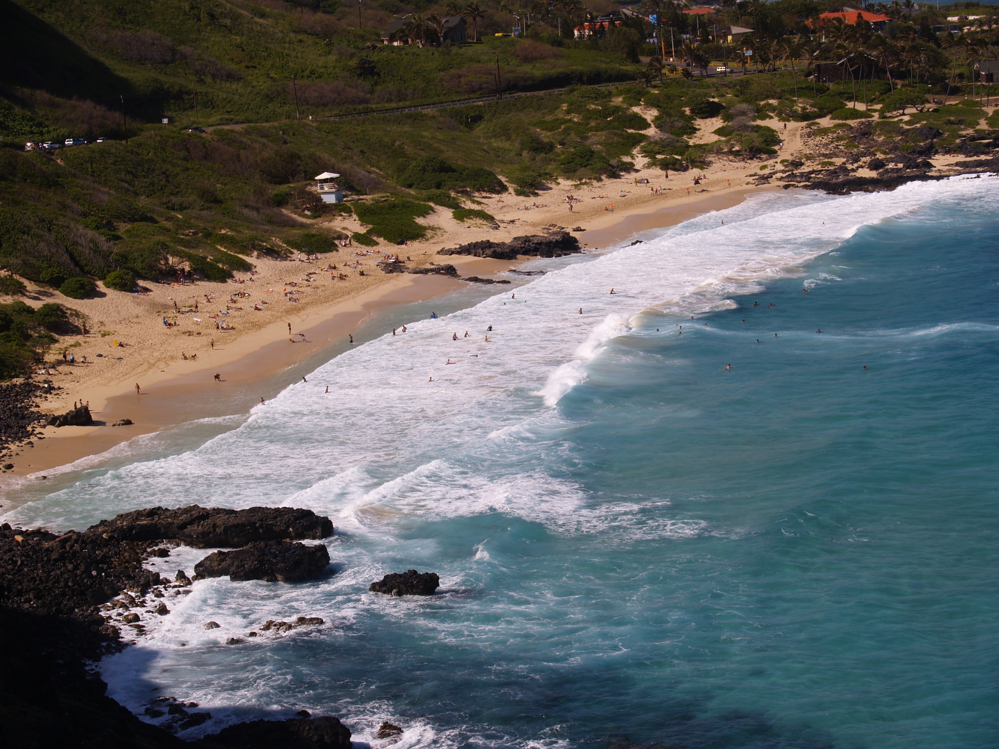 Makapuu Beach viewed North West from the lookout